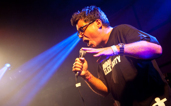 London Elektricity singing during his set - Hospitality @ Matter